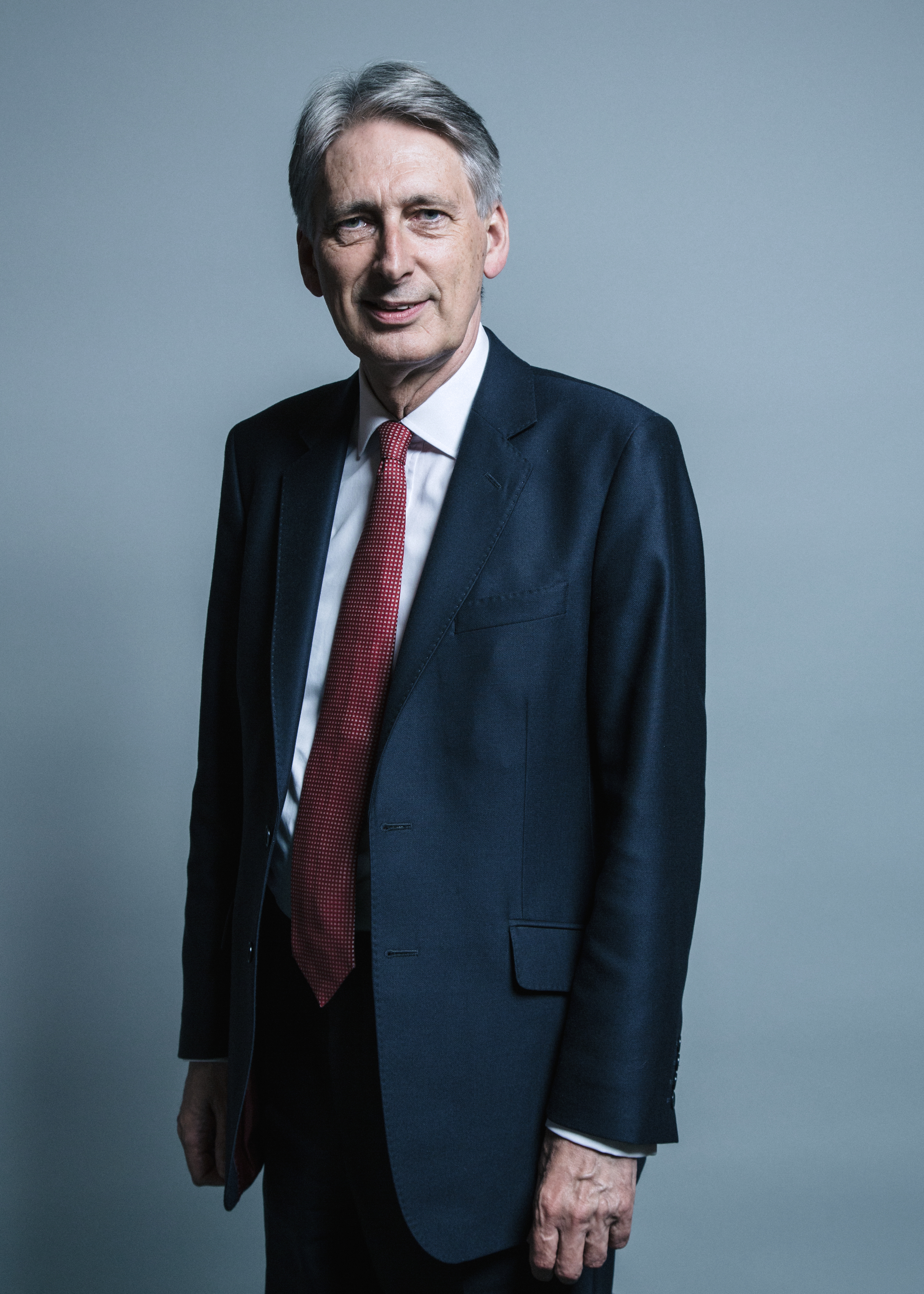 Official portrait of Mr Philip Hammond